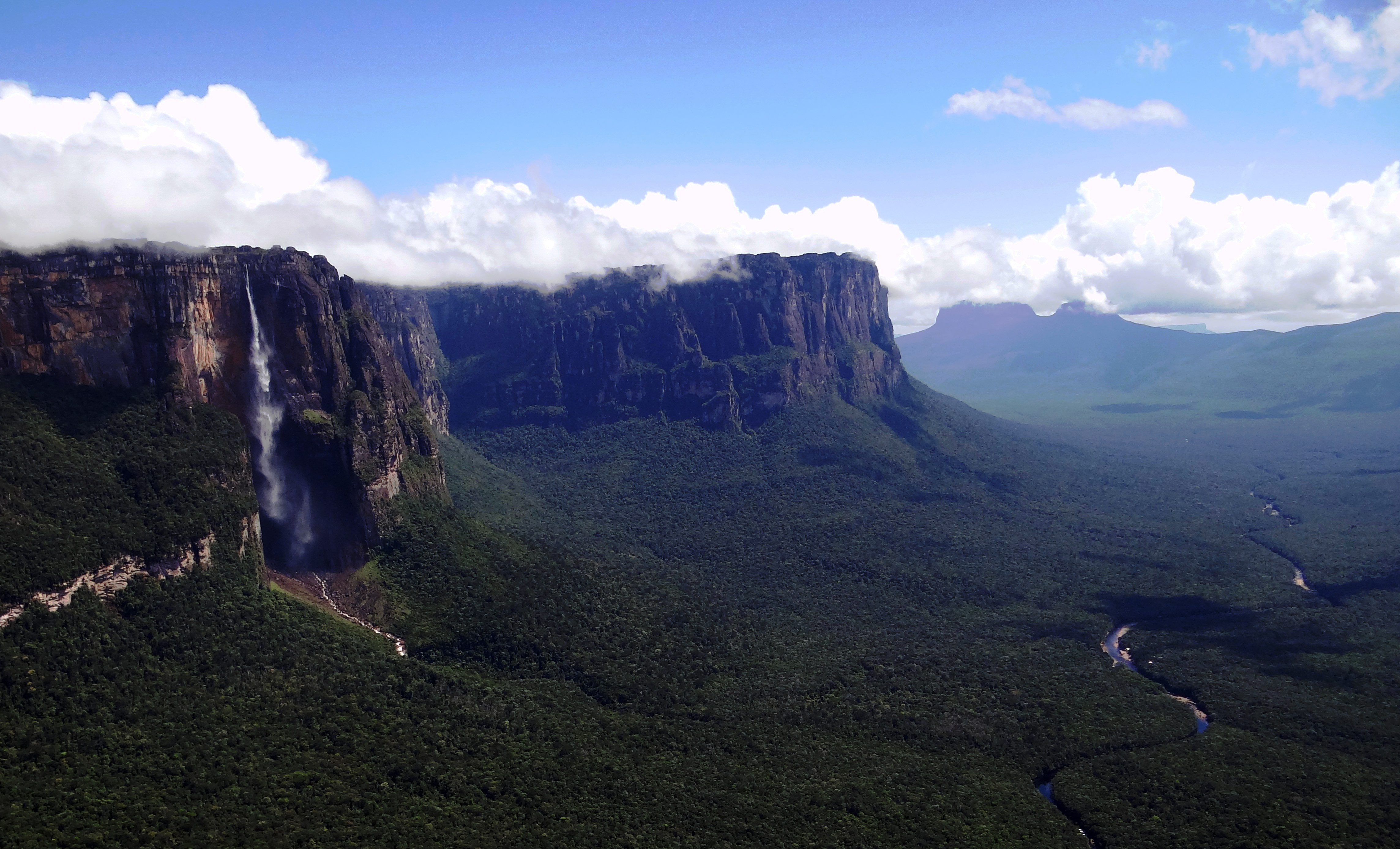 Panoramica del Salto Angel (a la izquierda) - Cañon del Diablo - Río Churun